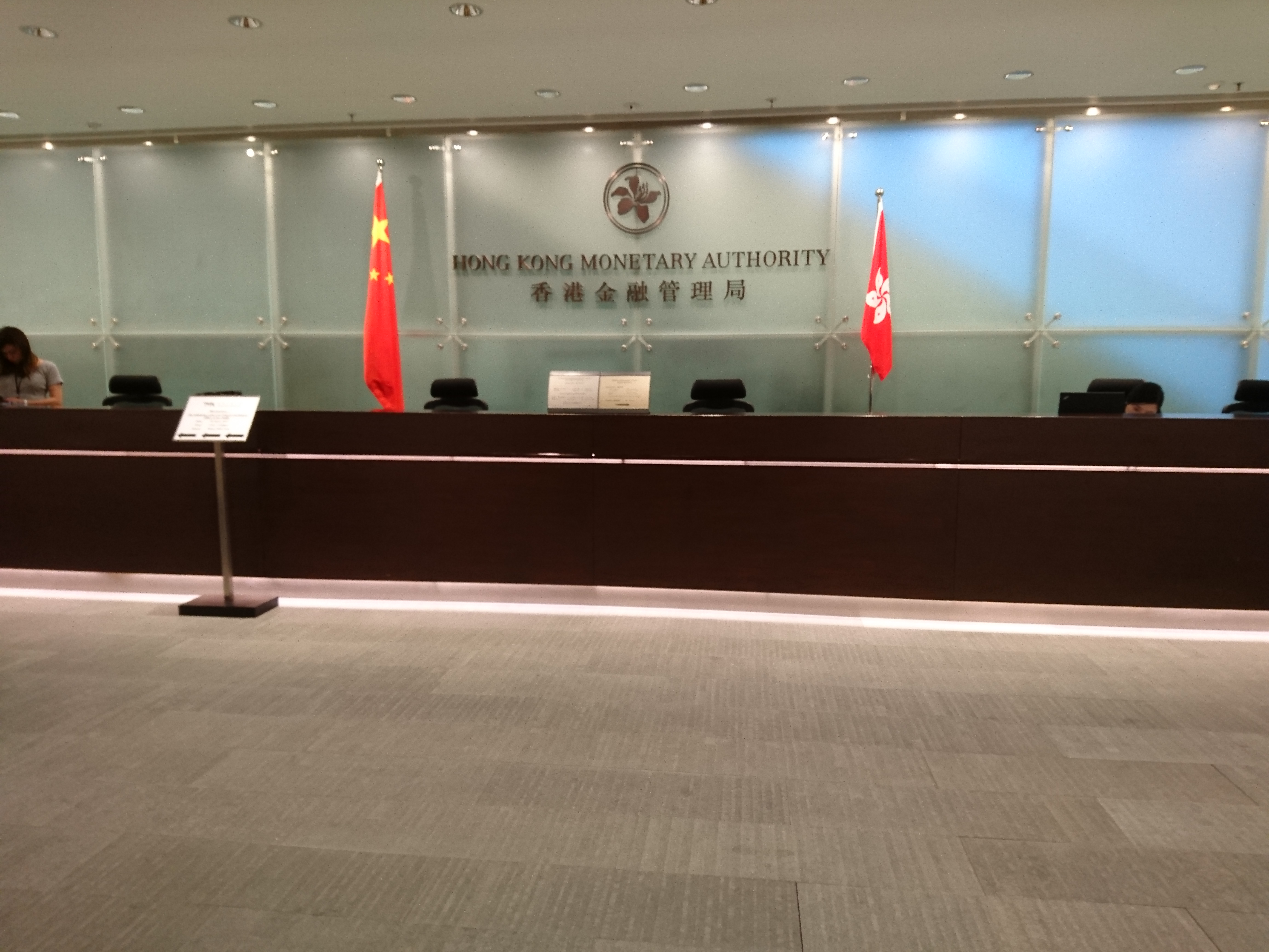 Hong Kong Monetary Authority Reception